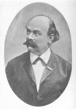 Picture of Wilhelm Popp, german composer from 1828 - 1903